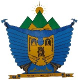 Escudo diseñado por Rolberto Alvarez